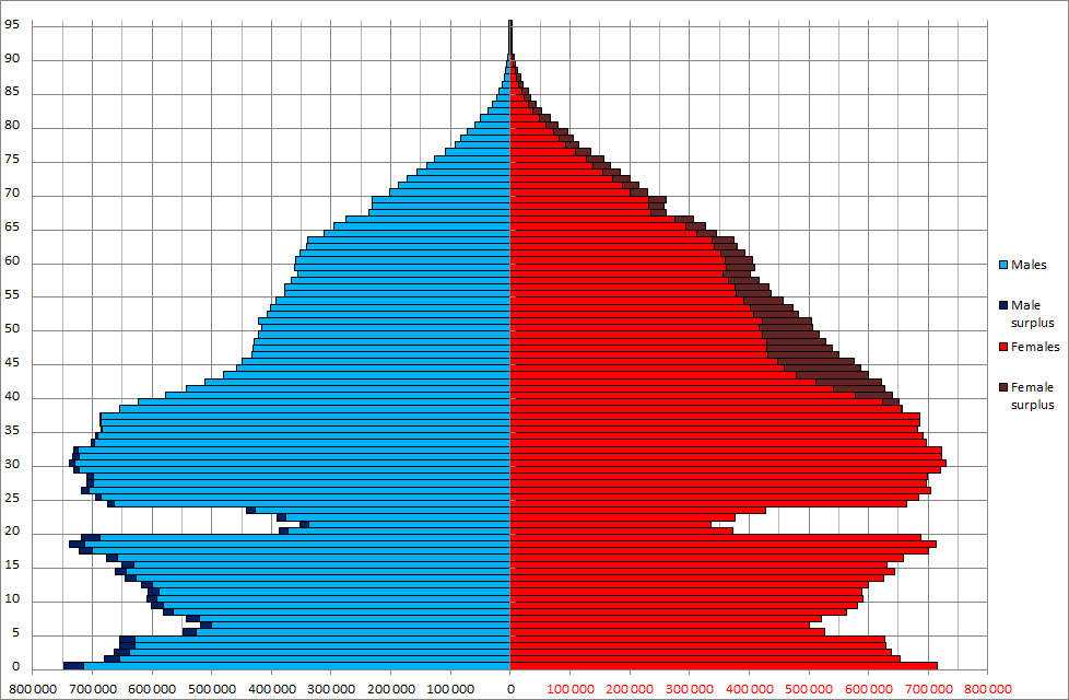 Population of then-Germany (with Austria) by age and sex (demographic pyramid) as on May, 17, 1939